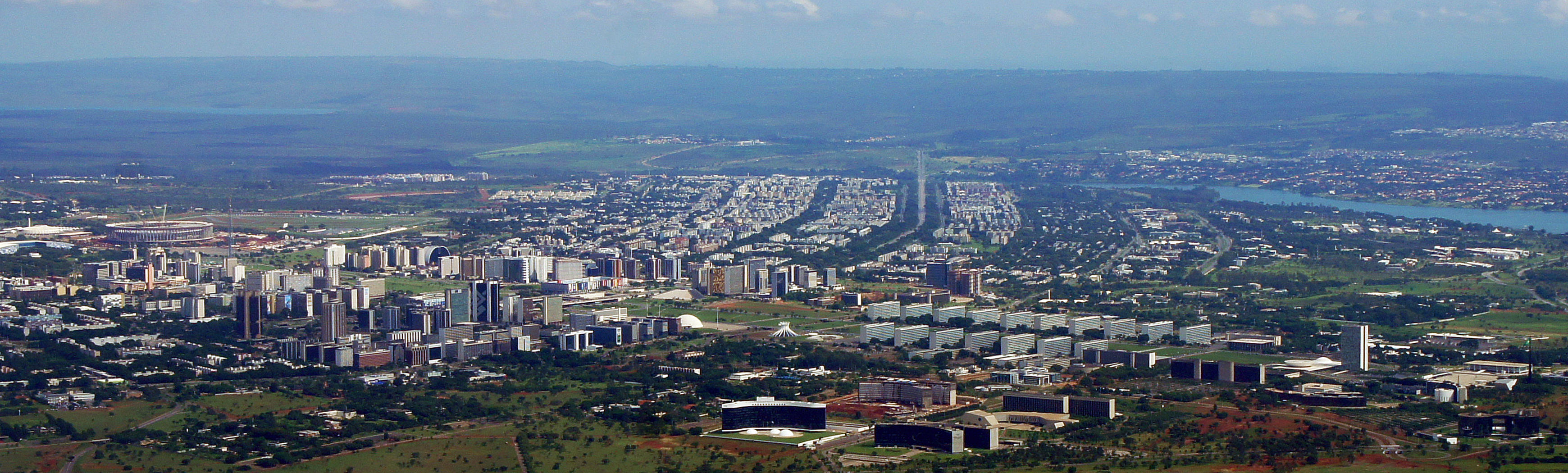 Aerial view of downtown Brasília (Plano Piloto) along the Monumental Axis from the new Mane Garrincha Arena/Estadio Nacional (left) to the Brazilian Federal Congress/Square of the Three Powers (right). The entire North Wing (Asa Norte) residential area is shown in the middle of the image.